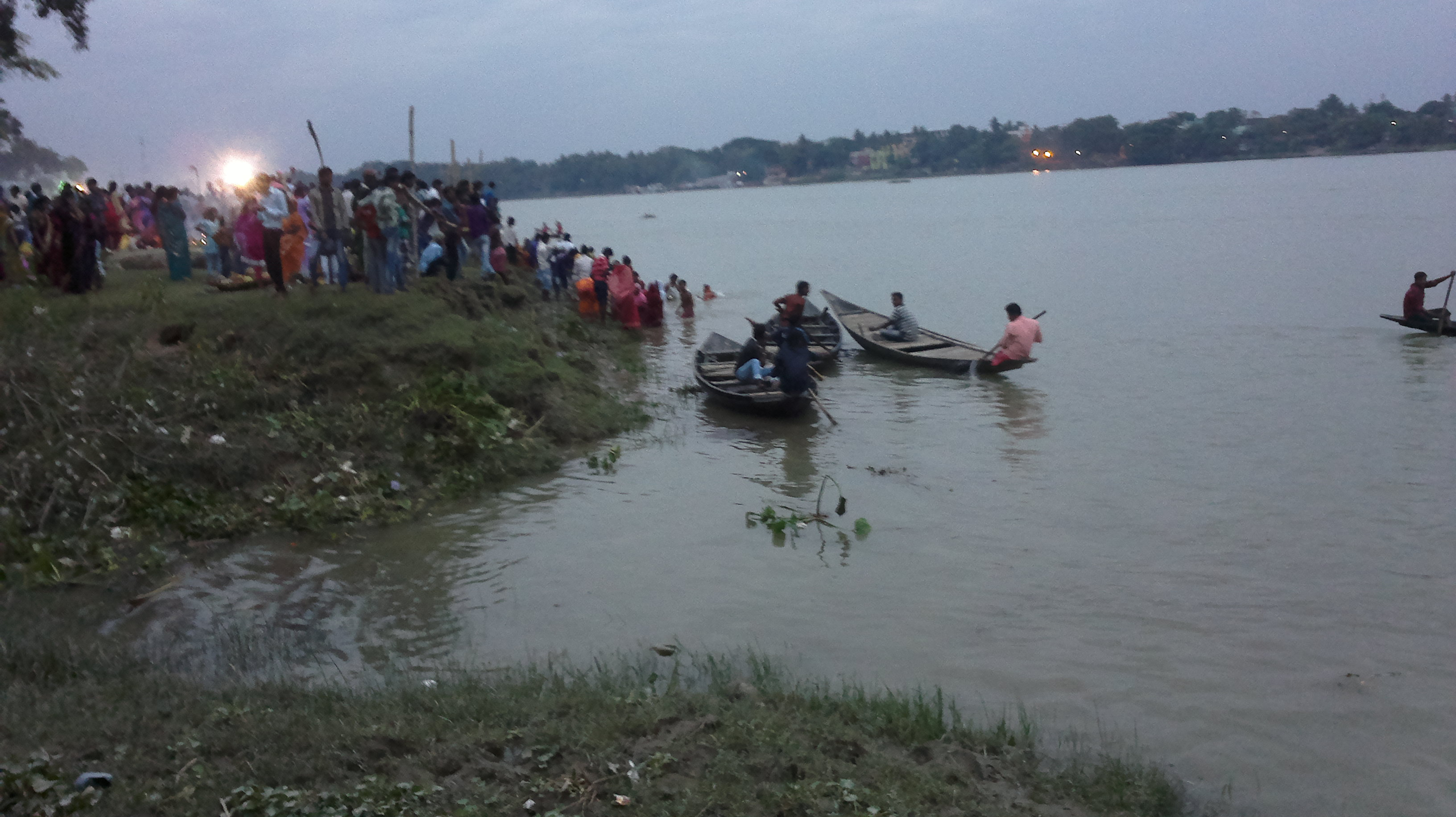 Jagatdal3